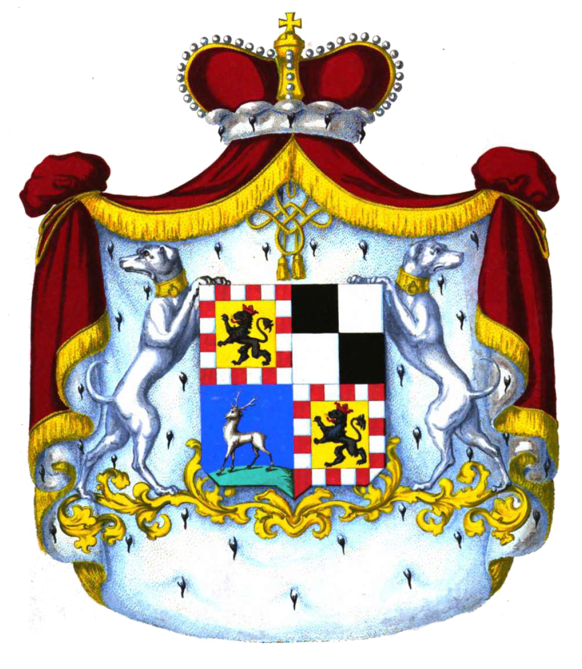 Coat of arms of principality Hohenzollern-Hechingen